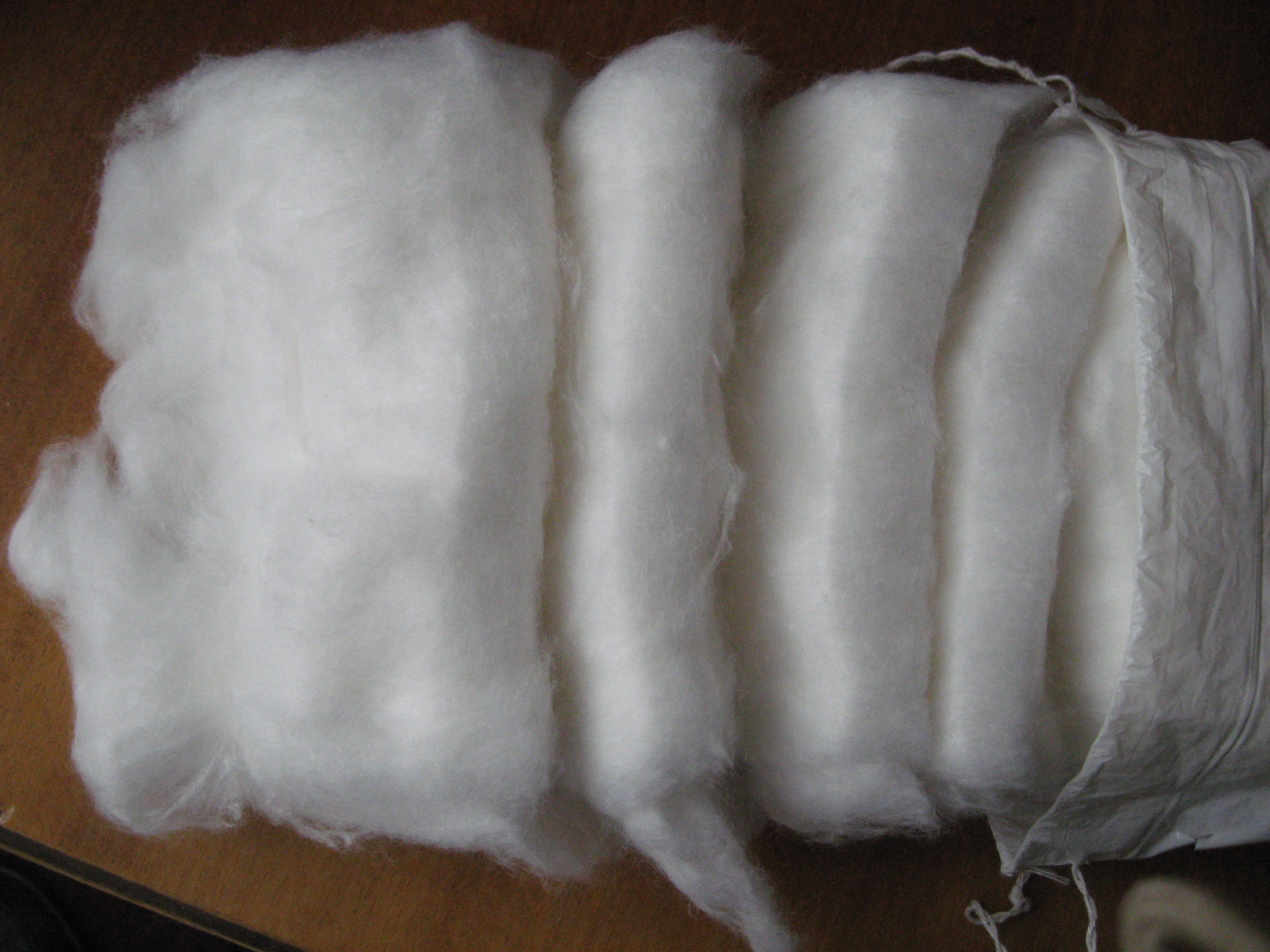 Cotton wool for household enduse, not sterilised